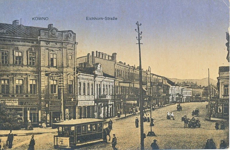 Horse tramway in Kaunas